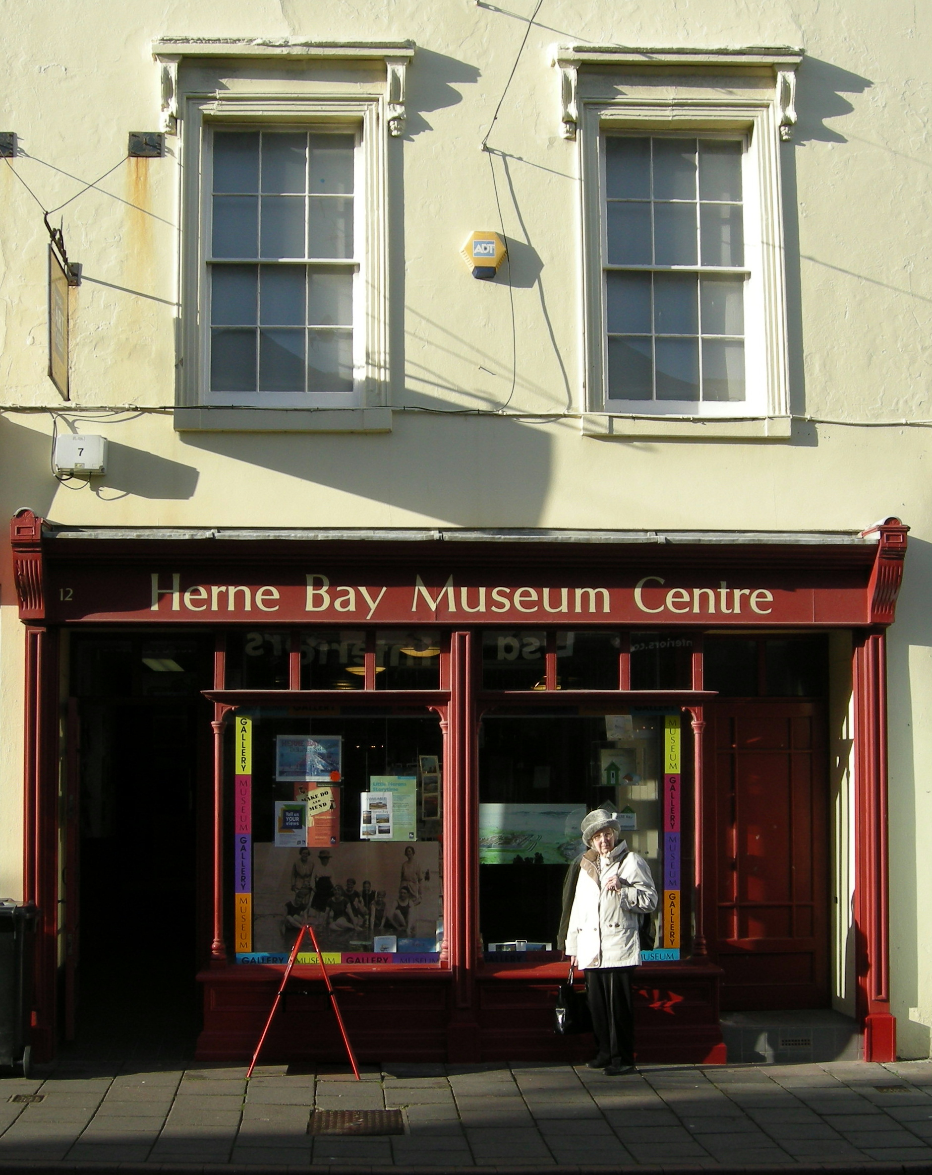 Herne Bay Museum and Gallery frontage